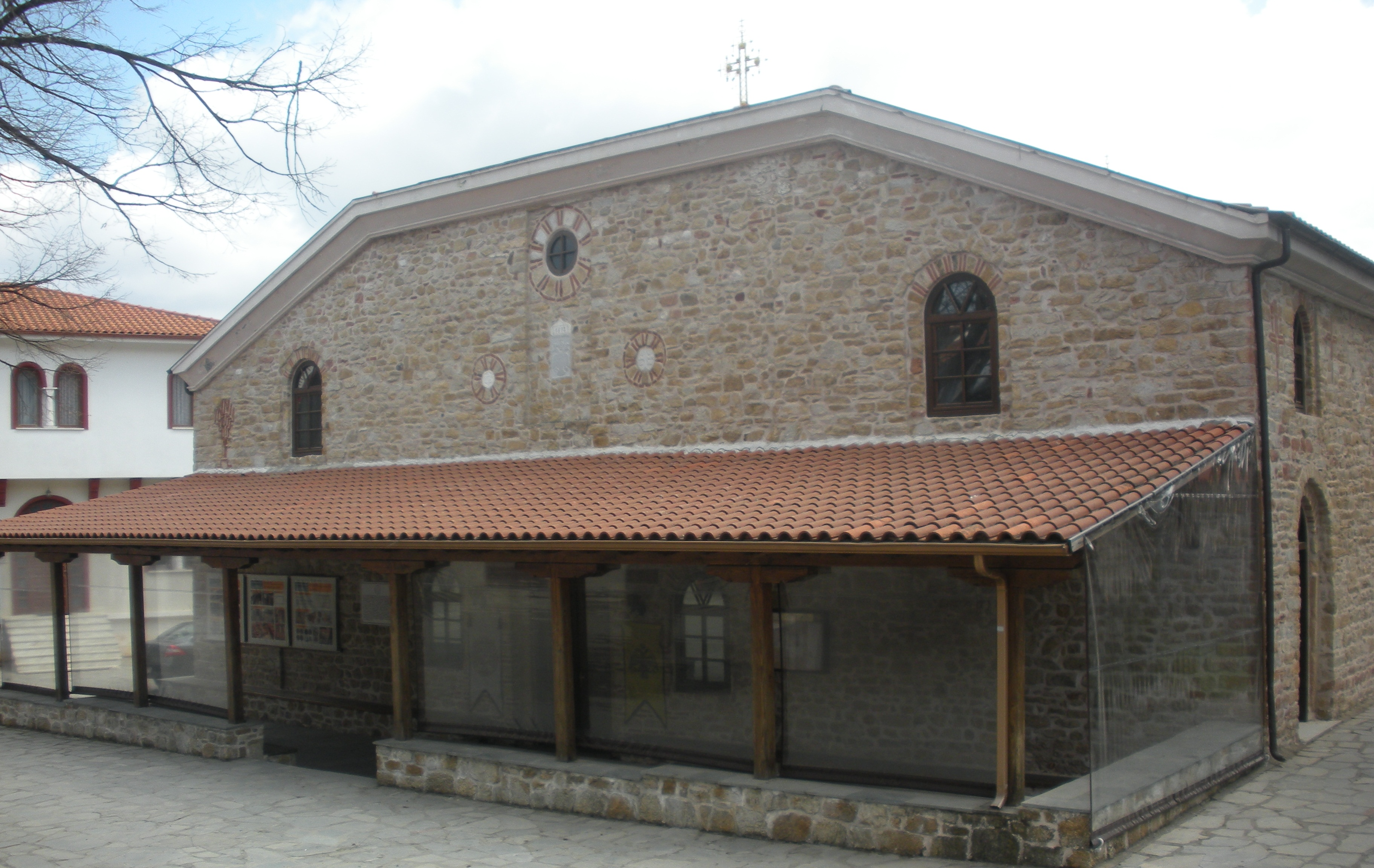 St Stefanos Church in Arnaia